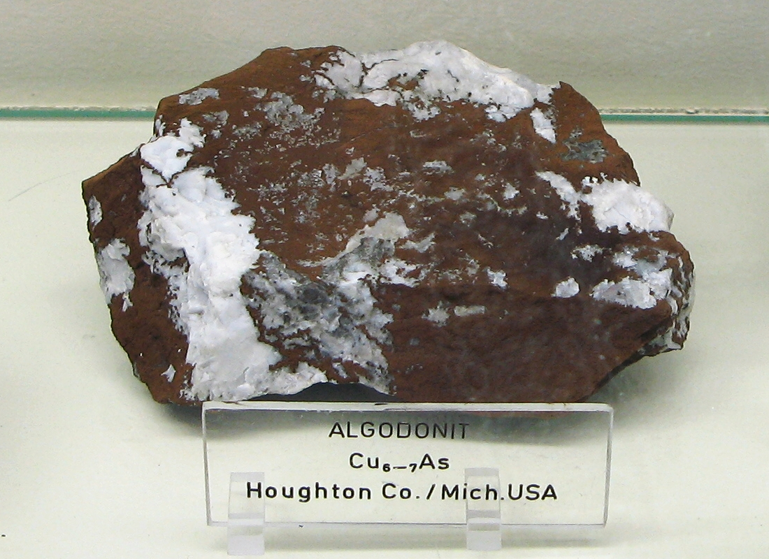 Algodonite - Locality: Houghton County, Michigan, USA - Exposed in the Mineralogical Museum, Bonn, Germany